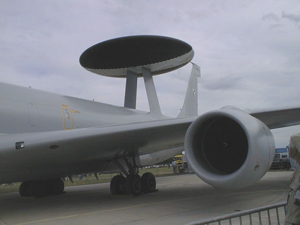 Boeing E-3F Sentry. Avord Air Base, France.